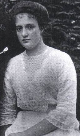 Archduchess Mechthildis of Austria